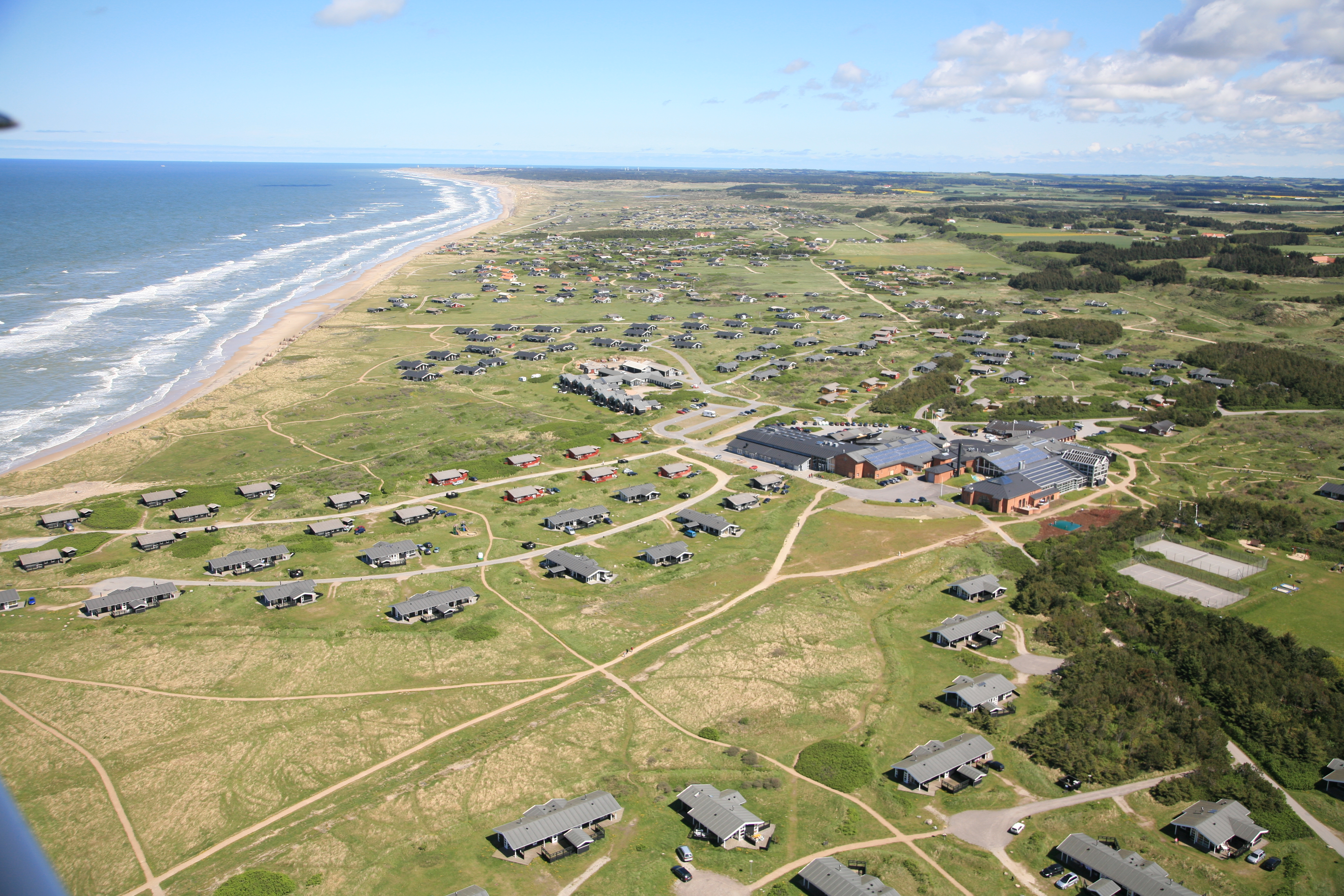 Skallerup Klit, a refugee camp in Denmark, seen from south to north. Skallerup Feriecenter seen in the foreground and Hirtshals in the distance.